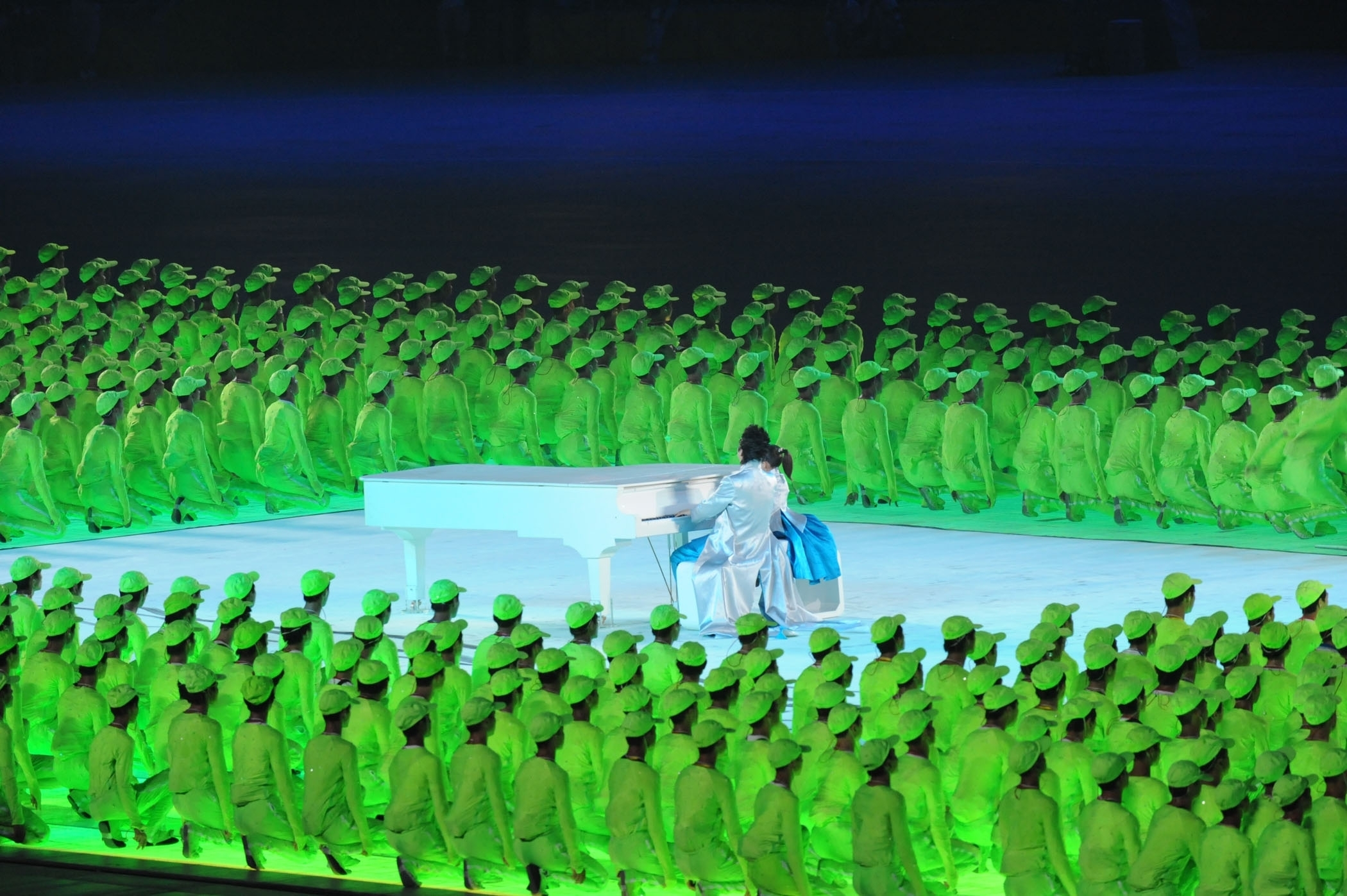 Chinese pianist Lang Lang and 5-year-old Li Muzi play a romantic tune together to welcome a brand-new age in the storied history of the People's Republic of China during the starlight segment of the Opening Ceremony of the XXIX Olympiad on Aug. 8. Lang is the first Chinese pianist to have long-term cooperation with first-class orchestras in Berlin and Vienna.